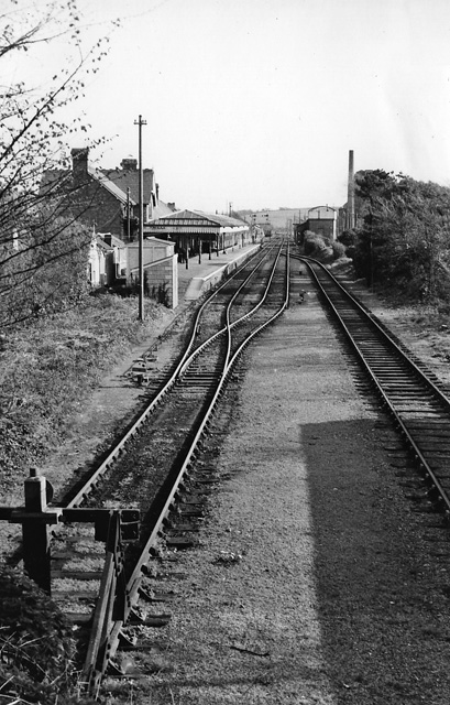 Bude Station. View southward, towards Halwill; ex-London & South Western terminus of line from Halwill, Okehampton, Exeter etc. Station and line from Halwill closed 3/10/66.